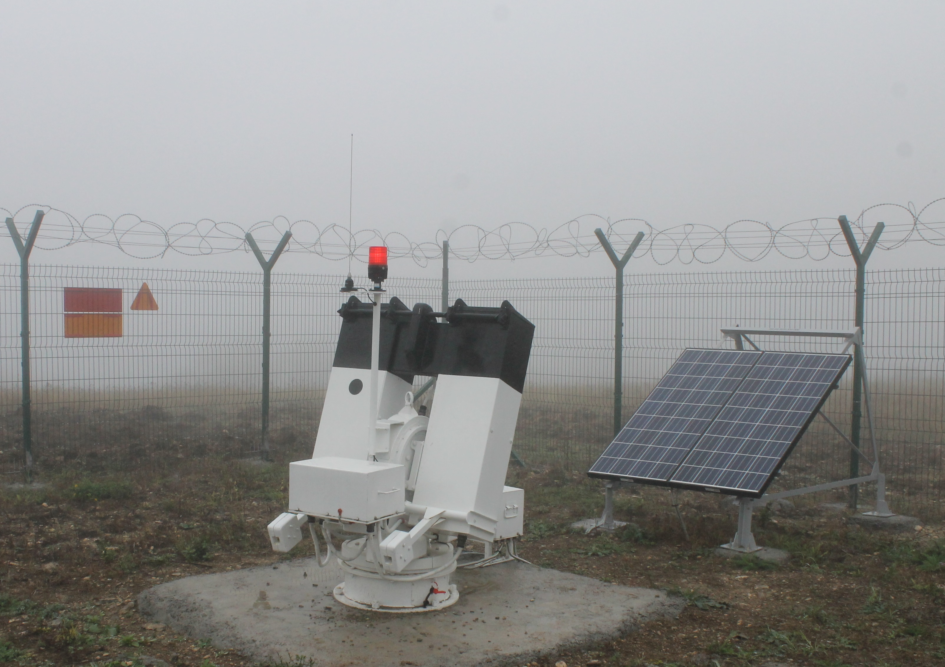 georgian made anti hail system